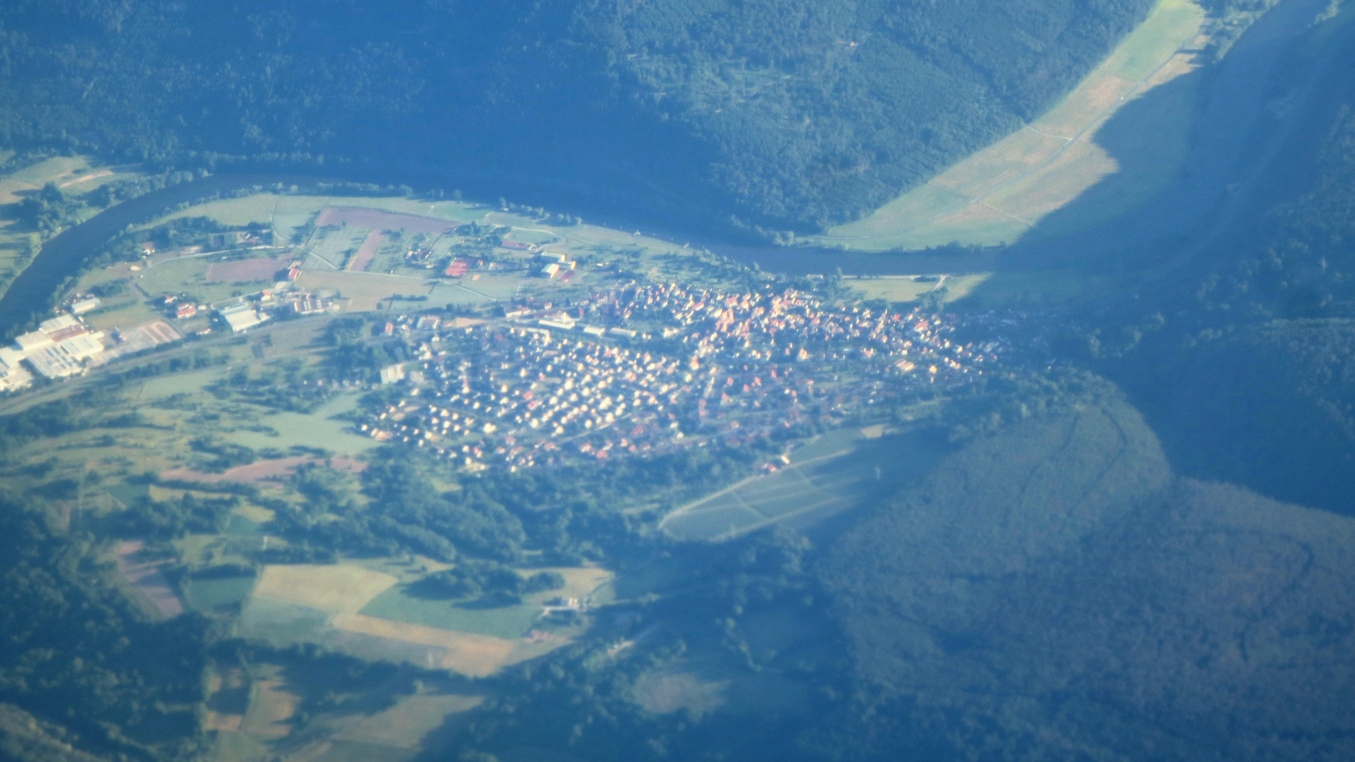 Dorfprozelten (Bayern) with the Magna Mirrors factory.